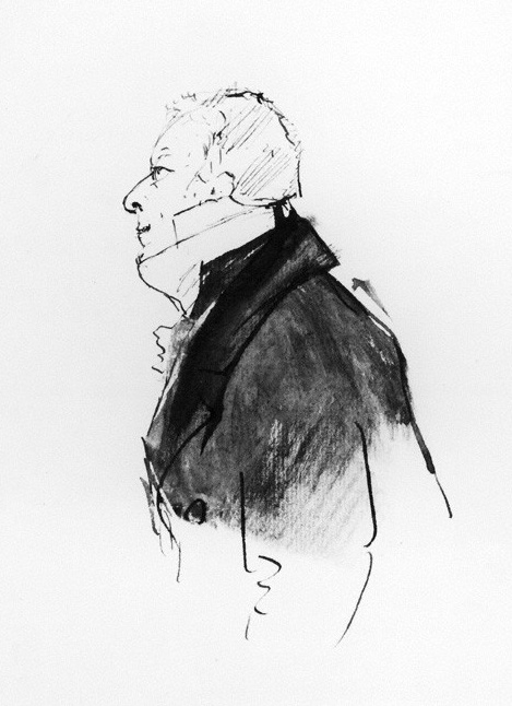 Portrait of John Ponsonby, 4th Earl of Bessborough